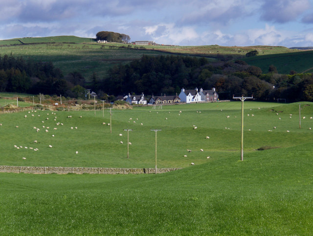 New Luce across the fields